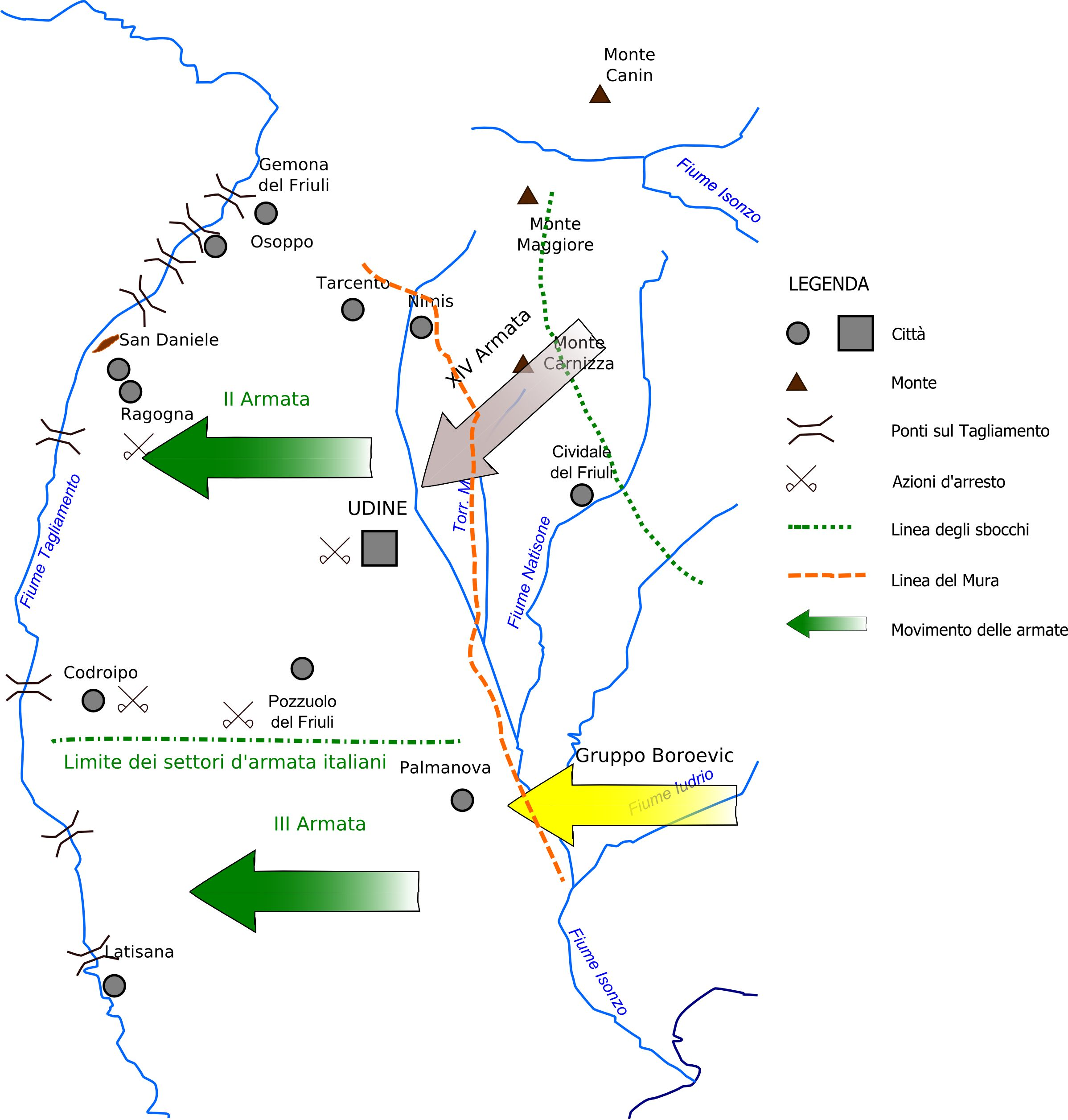 Reatreat of the Italian armies after the Caporetto breakthrough (File .jpg, exists also the file .svg, that can be modified in order to give the indications in different languages)